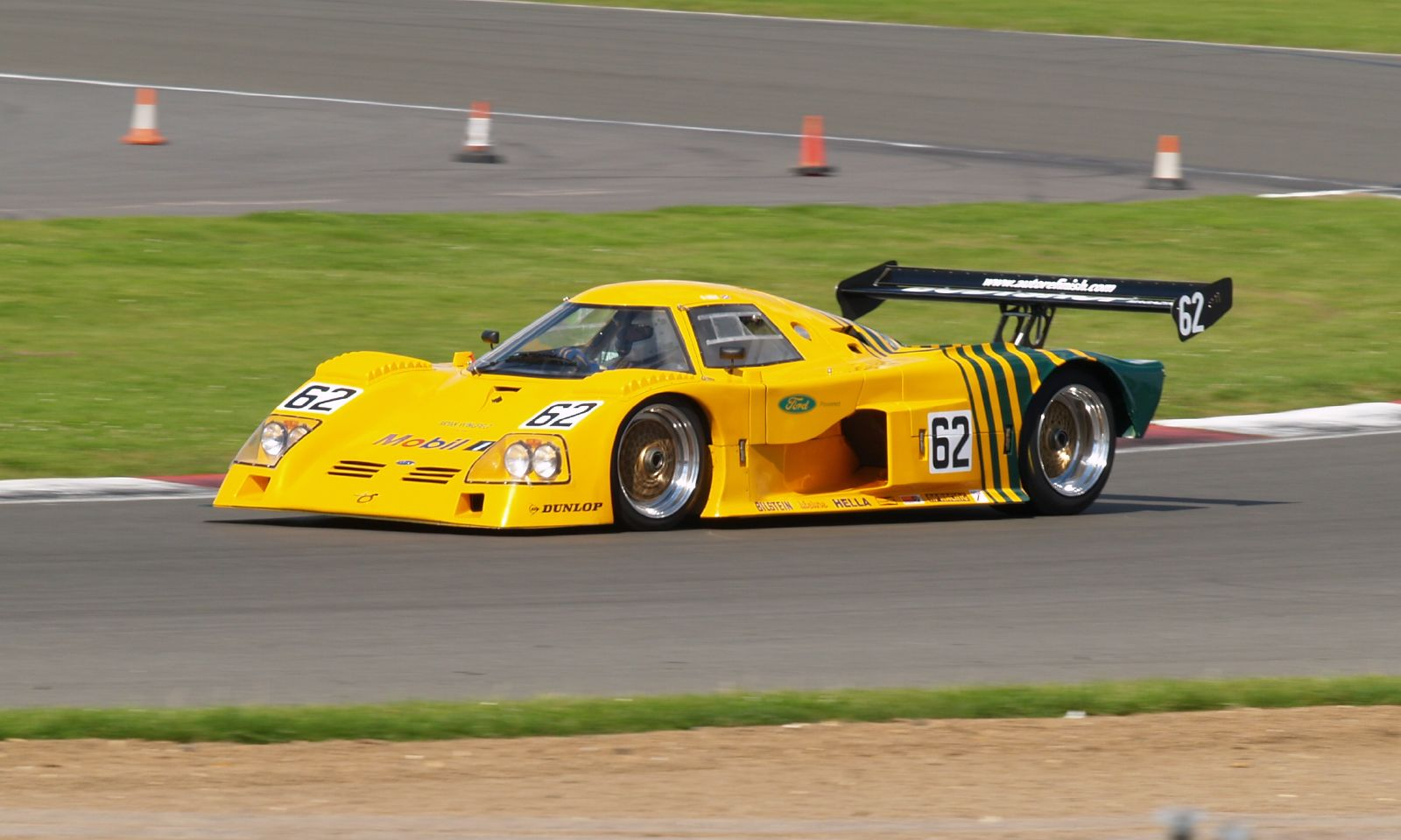 A Ford (Zakspeed) C100 at the Silverstone Classic